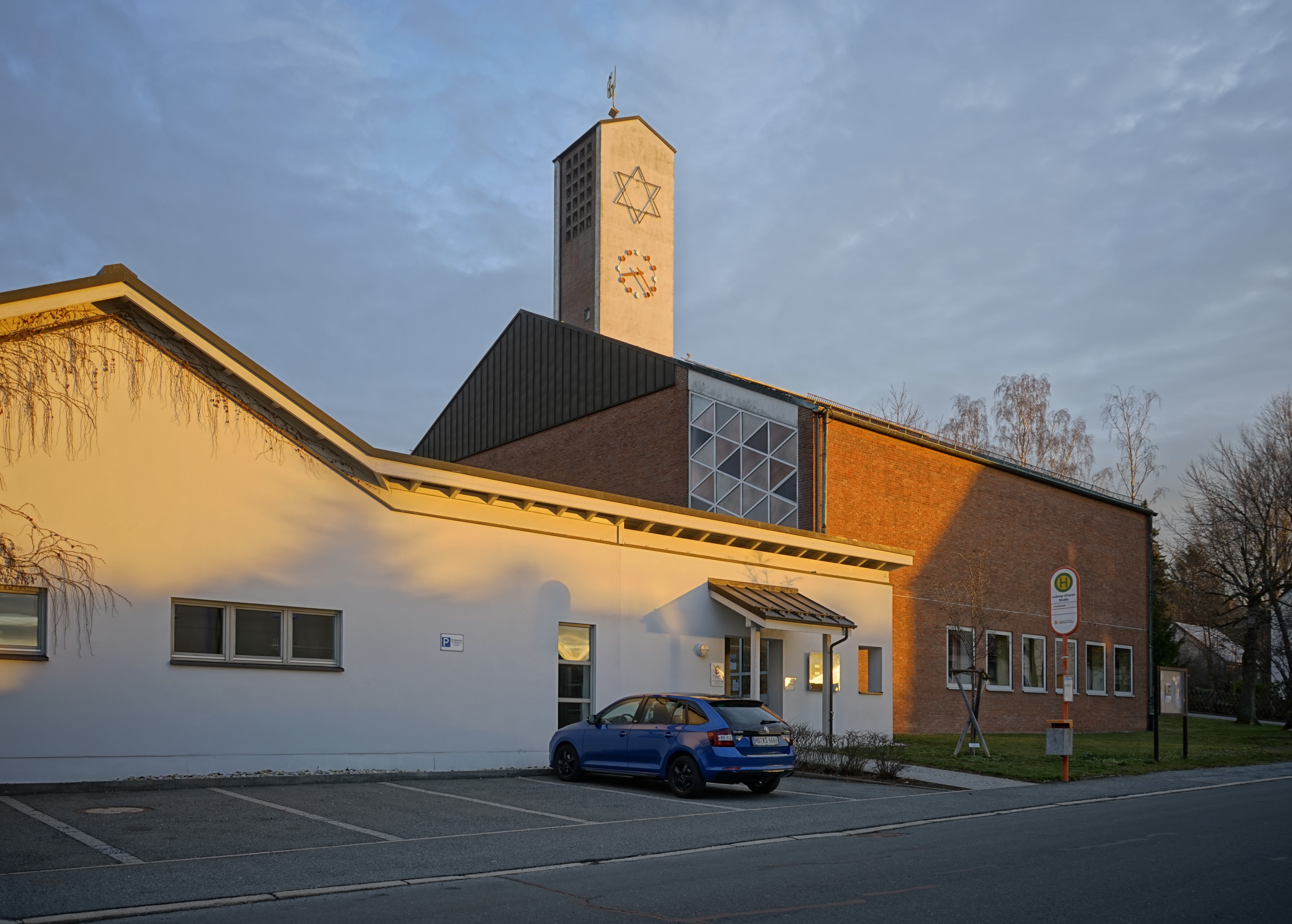 The trinity church of Hof at sunset